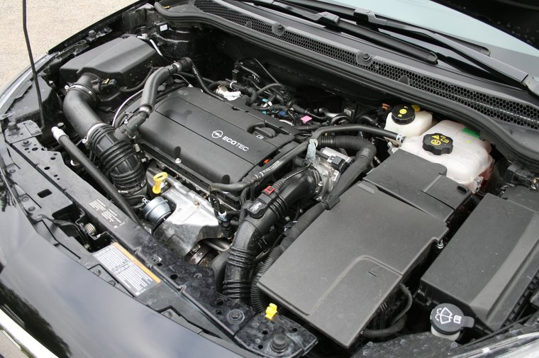 Opel Astra IV Engine